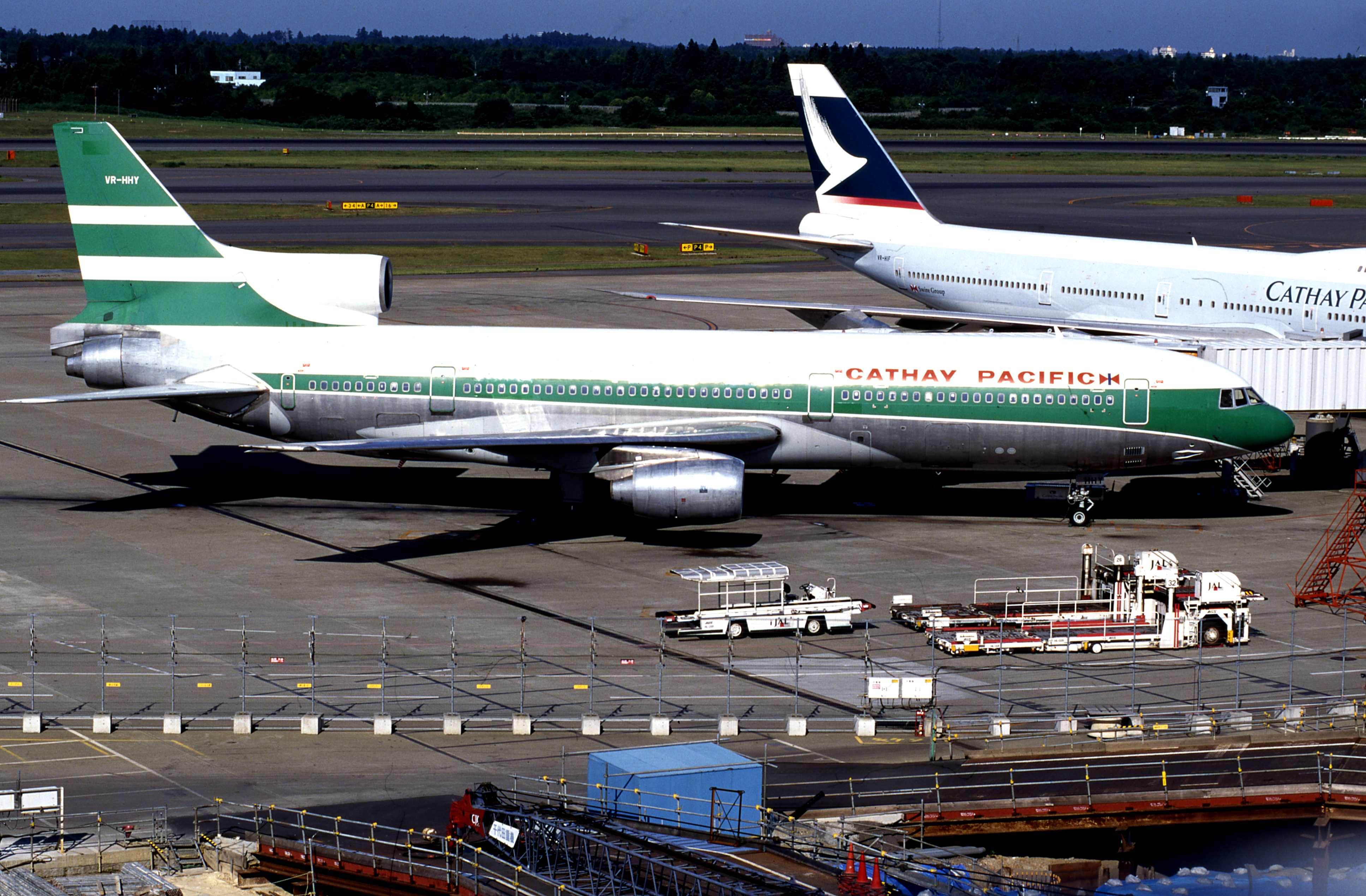 Cathay Pacific L-1011-385-1 Tristar 1